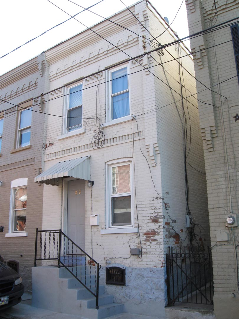 Henry Noll's residence in Bethlehem, located at 812 Laufer St.